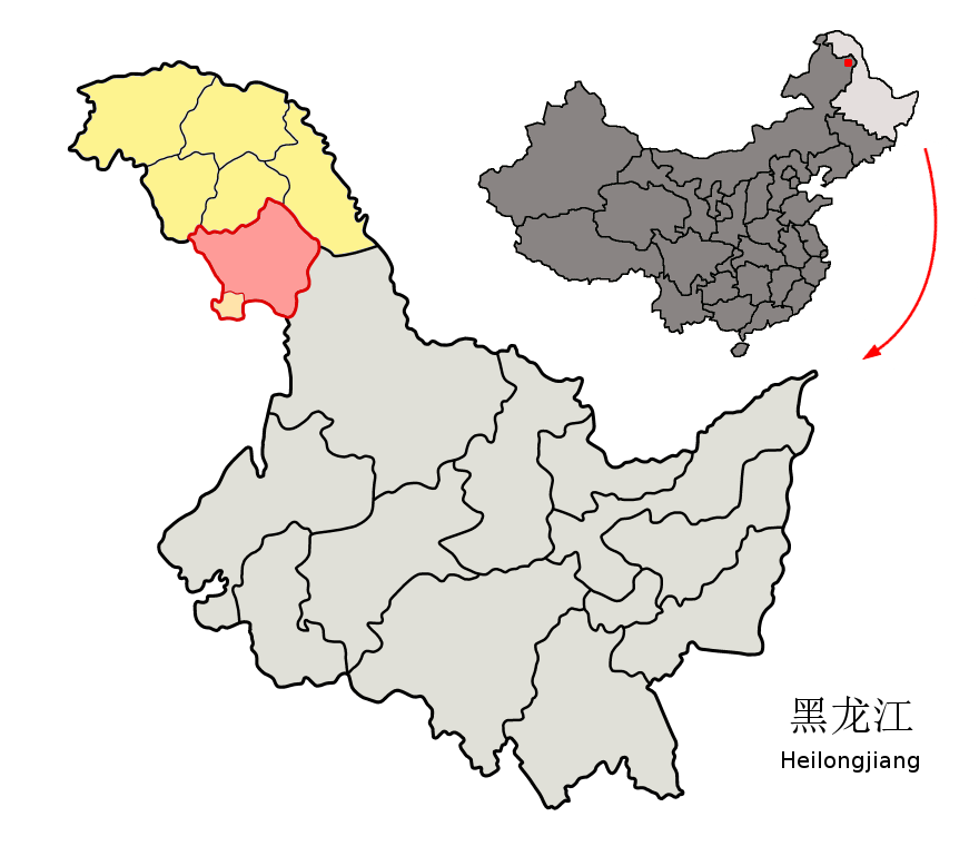 Location of Songling District (pink) and Daxing'anling Prefecture (yellow) within Heilongjiang Province of China. Songling and Jiagedaqi Districts (light salmon), under Heilongjiang administration, nominally belong to Inner Mongolia. Map drawn in november 2007 using various sources, mainly : Heilongjiang Province administrative regions GIS data: 1:1M, County level, 1990 Heilongjiang Counties map from Map of Daxing'anling Prefecture